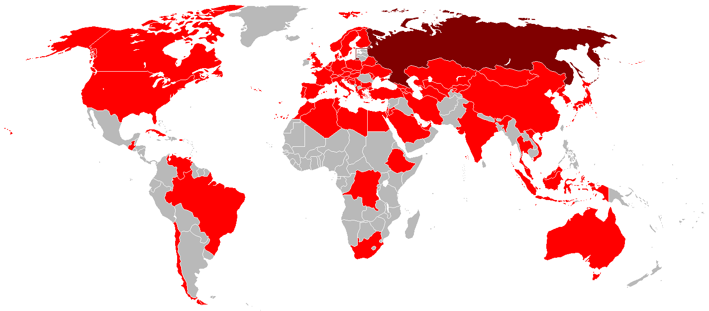 Vladimir Putin's international trips during his presidency